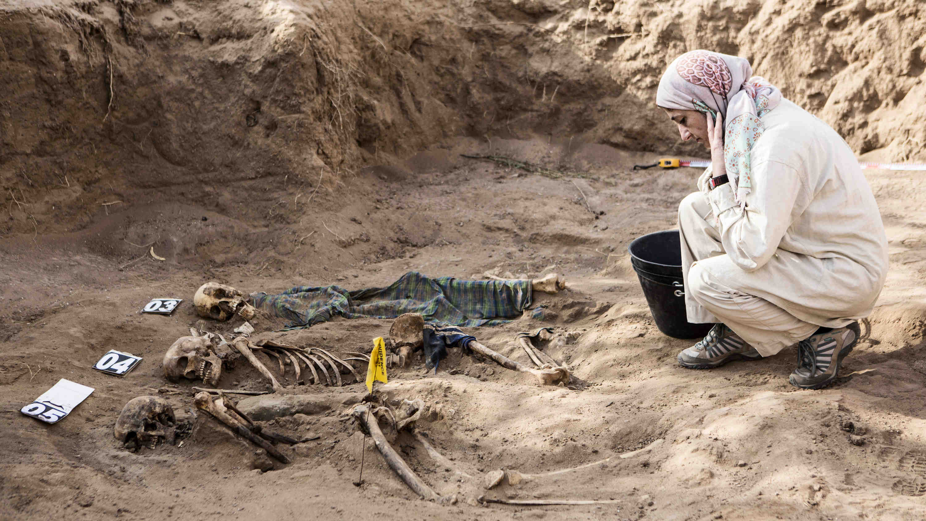 Peruvian Team of Forensic Anthropology (EPAF) member studies exhumed human remains as part of an ongoing investigation